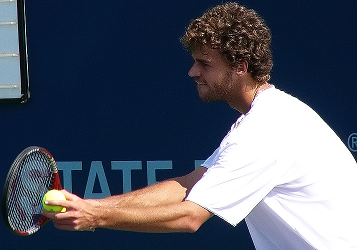 Gustavo Kuerten at the 2004 Rogers Cup, Toronto, Canada